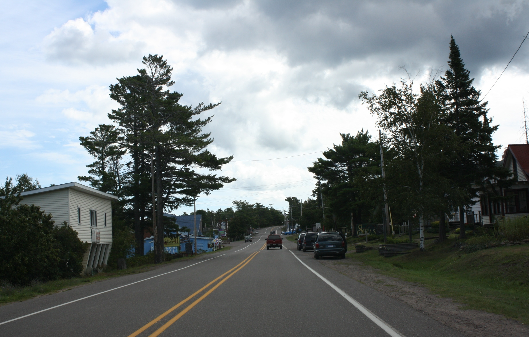 Looking east in downtown Copper Harbor, Michigan on U.S. Route 41.